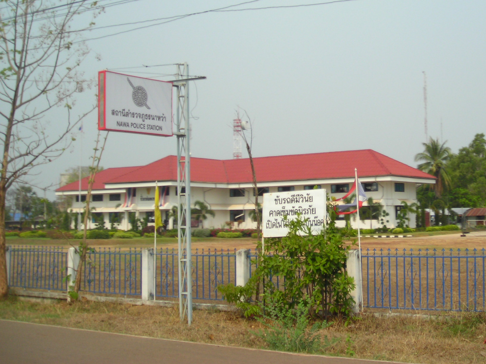 Administration building of Amphoe Na Wa, Thailand. The Police station is neighboring to the right.